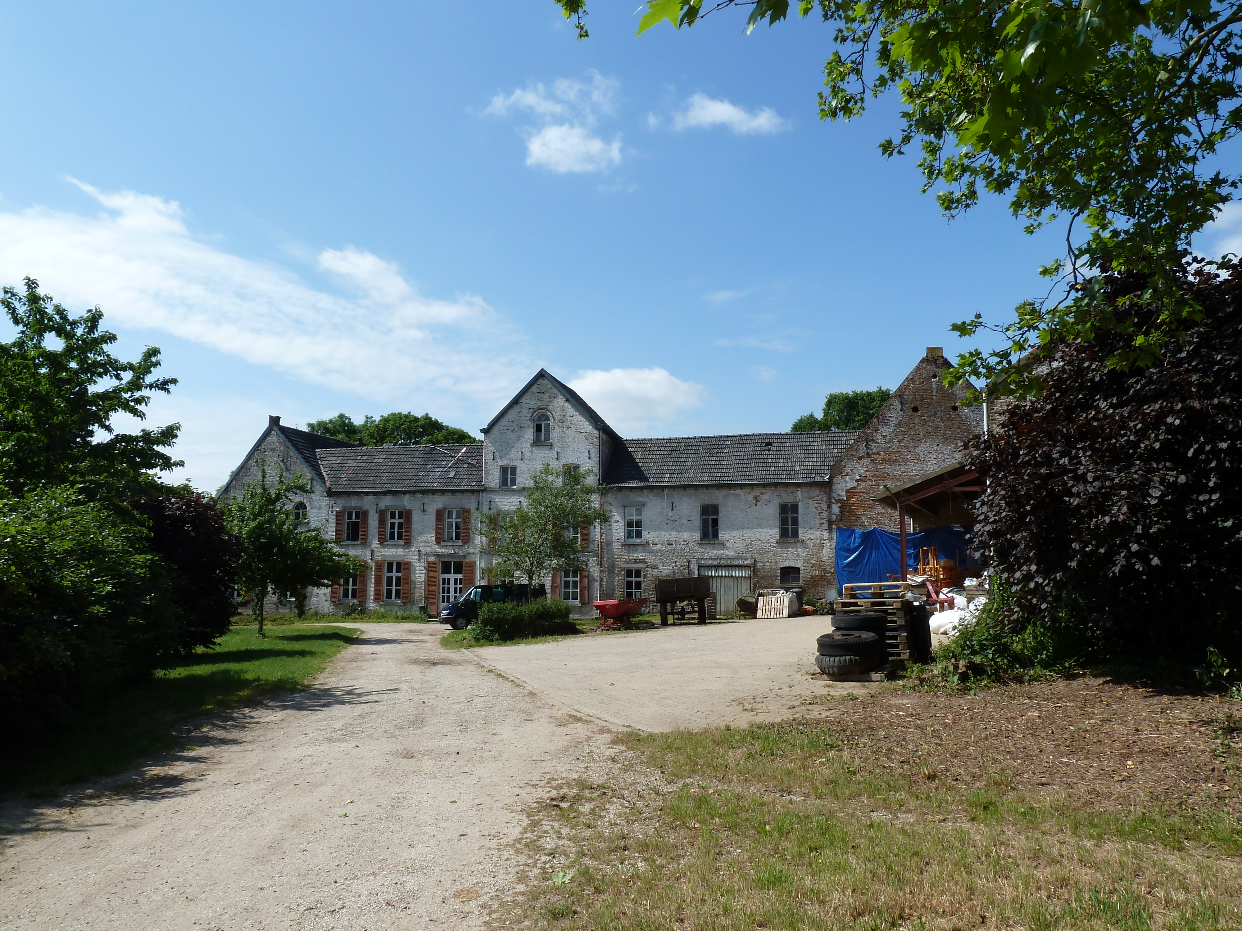 Groeneweg 10, Brunssum, Limburg, the Netherlands